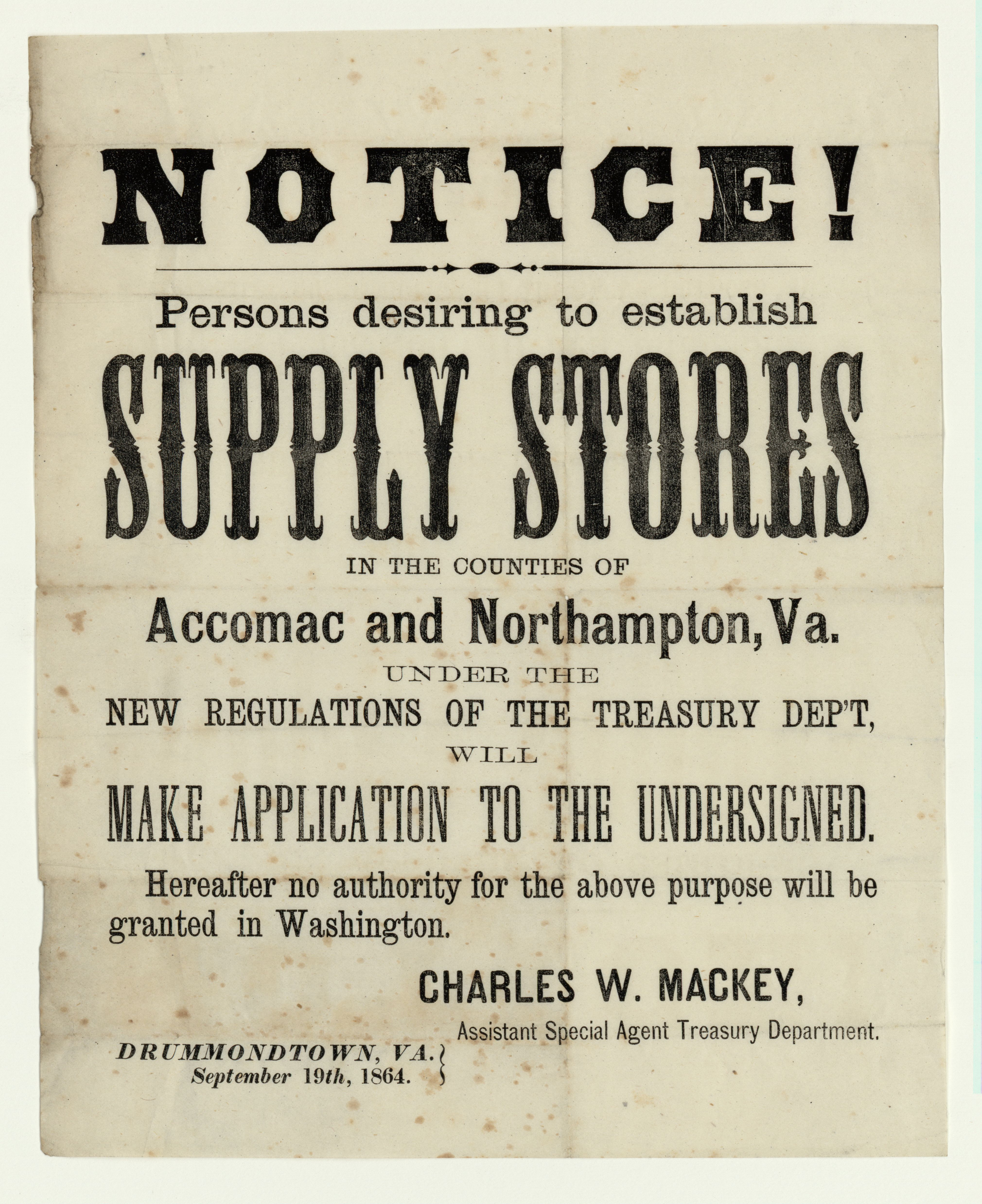 Notice to persons desiring to establish supply stores in the counties of Accomac and Northampton, Virginia that no such authority will be granted from Washington. Signed by Charles W. Mackey. Dated September 19, 1864